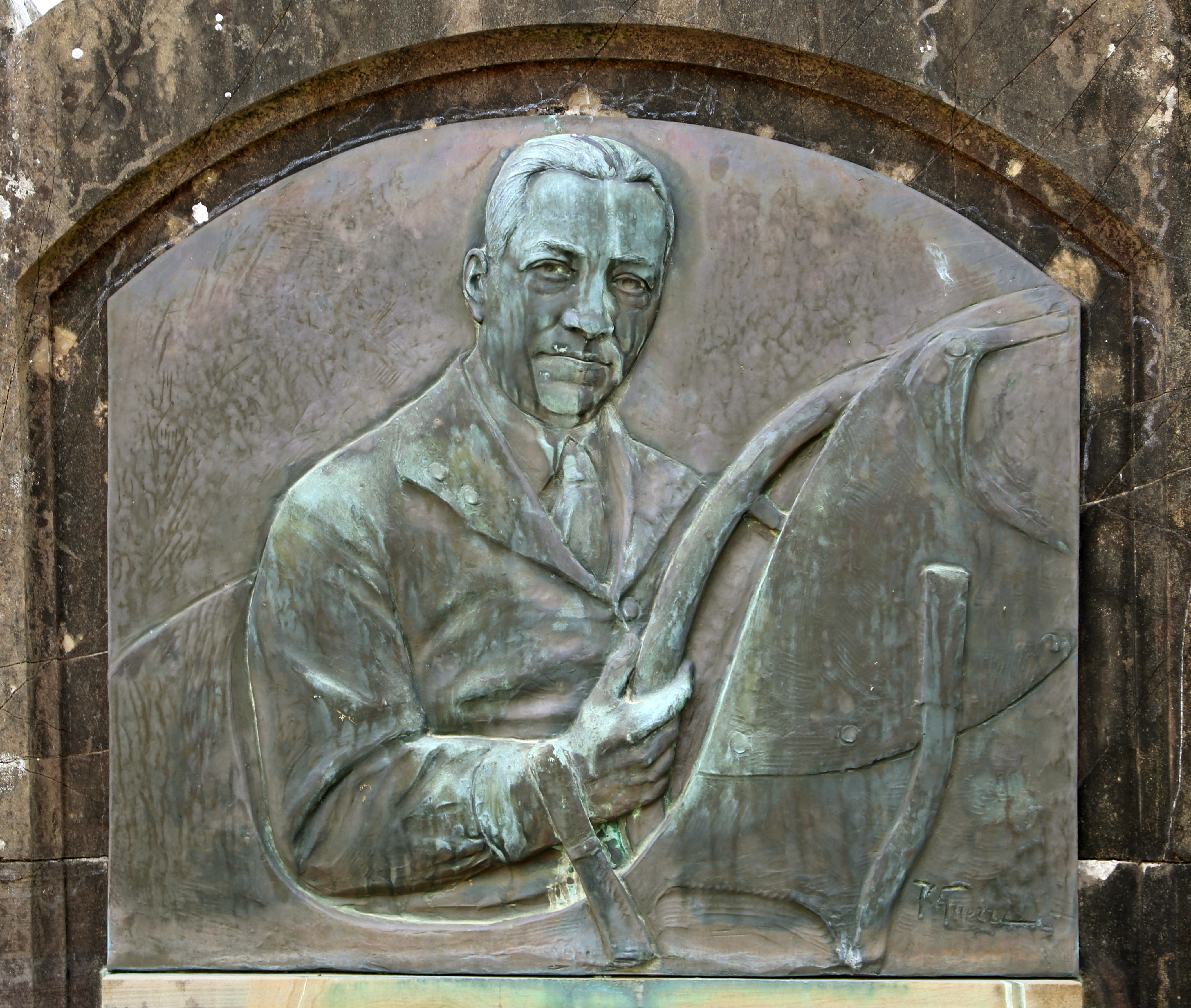 Trespiano cemetery